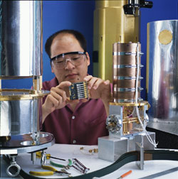 NIST research on quantum computing and communications includes a recent demonstration of a device that can count about 20,000 photons (the smallest units of light) per second. Here, NIST physicist Sae Woo Nam Sae Woo Nam holds a circuit used to amplify signals from the new photon detector. Copyright Geoffrey Wheeler This image may be used for any NIST purpose. Correct photo credit must be provided. Other organizations may use this image without charge for editorial articles that mention NIST in accompanying text or a caption. Correct photo credit must be provided. "Stock art" use requires permission and may require payment to the photographer. To receive a high resolution version send an email with the image AV number (03EEEL001) and title to . Disclaimer: Any mention of commercial products within NIST web pages is for information only; it does not imply recommendation or endorsement by NIST. Use of NIST Information: These World Wide Web pages are provided as a public service by the National Institute of Standards and Technology (NIST). With the exception of material marked as copyrighted, information presented on these pages is considered public information and may be distributed or copied. Use of appropriate byline/photo/image credits is requested.